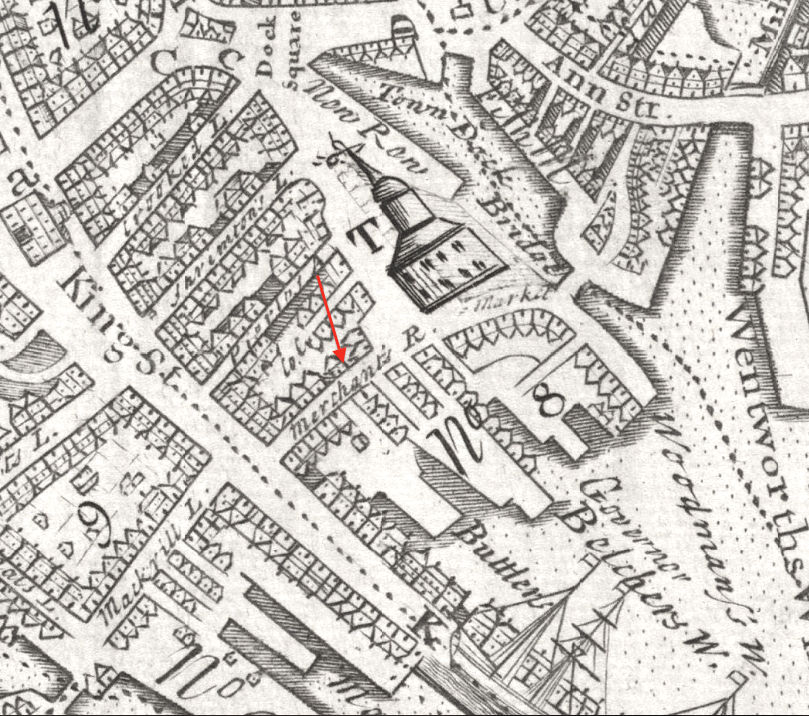 Detail of 1743 map of Boston by William Price, showing Merchant's Row and vicinity.